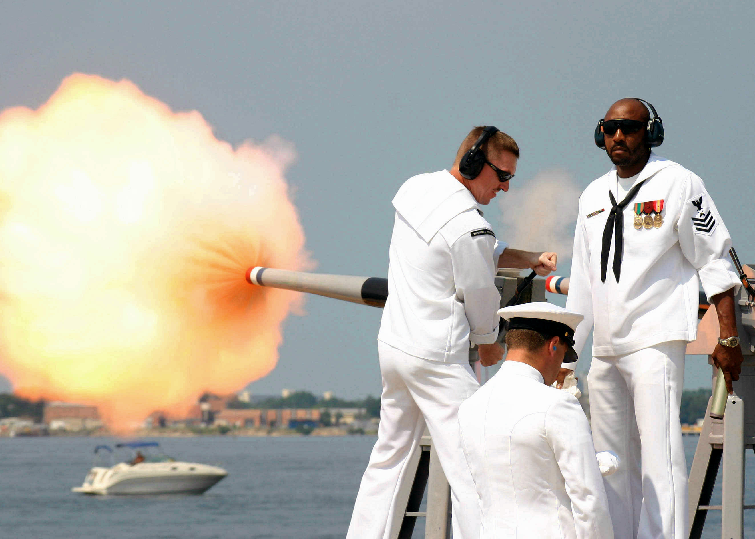 US NAVY (USN) Gunners Mates First Class (GM1) Ronnie Owens and Richard Ashley fire a 40mm saluting cannon in honor of the GOVERNOR of the State of Florida. The GOVERNOR was the keynote speaker during the commissioning ceremony for newest USN Arleigh Burke Class Guided Missile Destroyer, USS MOMSEN (DDG 92). The MOMSEN is named after USN Vice Admiral (VADM) Charles "Swede" Momsen, known for the development of the submarine escape breathing apparatus; the "Momsen Lung."